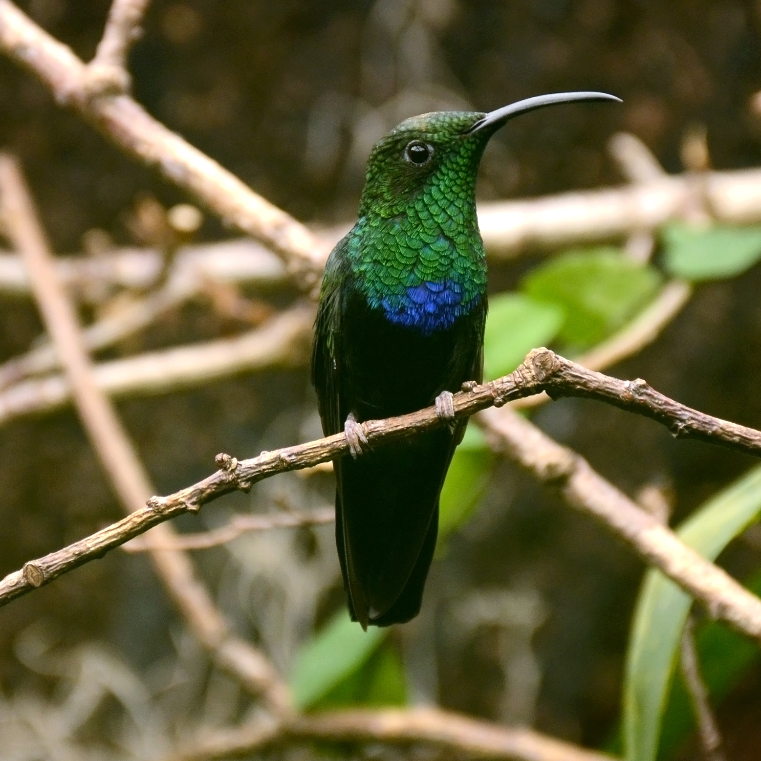 Green-throated Carib ( Eulampis holosericeus ) in the Parc des Oiseaux, in Villars-les-Dombes.